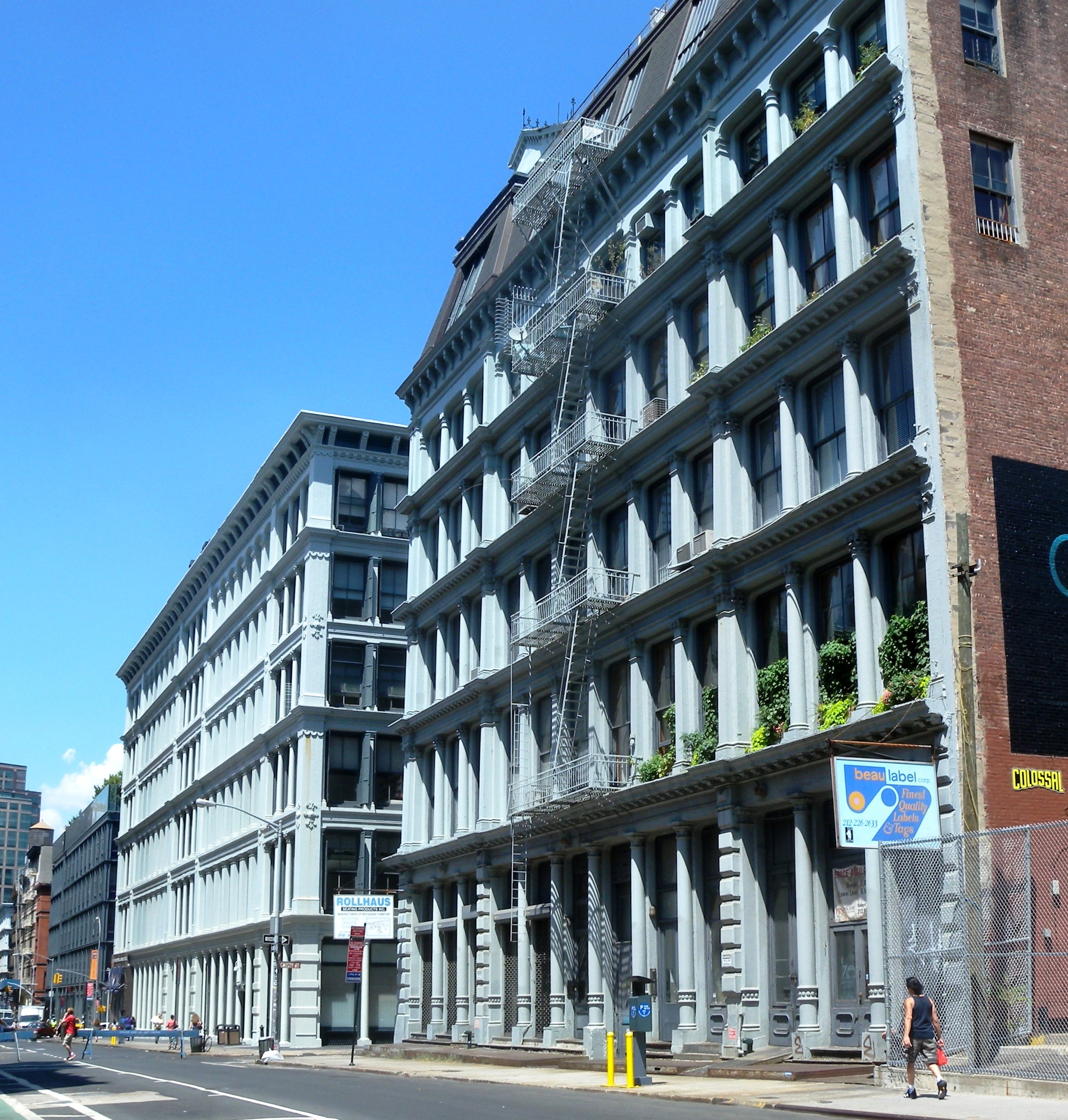 Looking northwest along Grand Street towards Crosby and two cast iron factory buildings on a sunny midday. 134-140 Grand Street is on the right foreground, and 462 Broadway (120-132 Grand Street) on the left background.